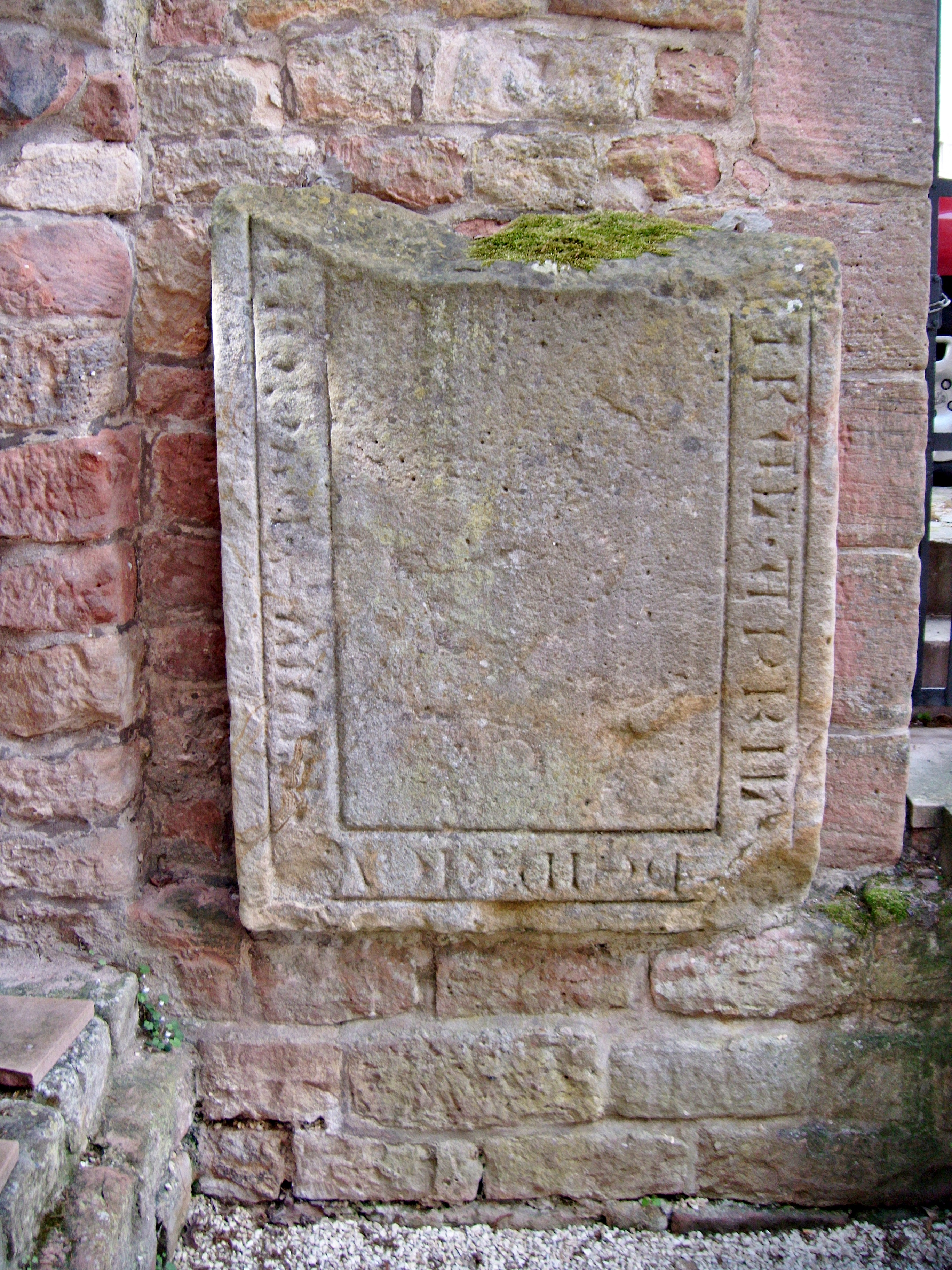 Mittelalterlicher Grabplattenrest, nördliches Querschiff der Klosterkirche Seebach